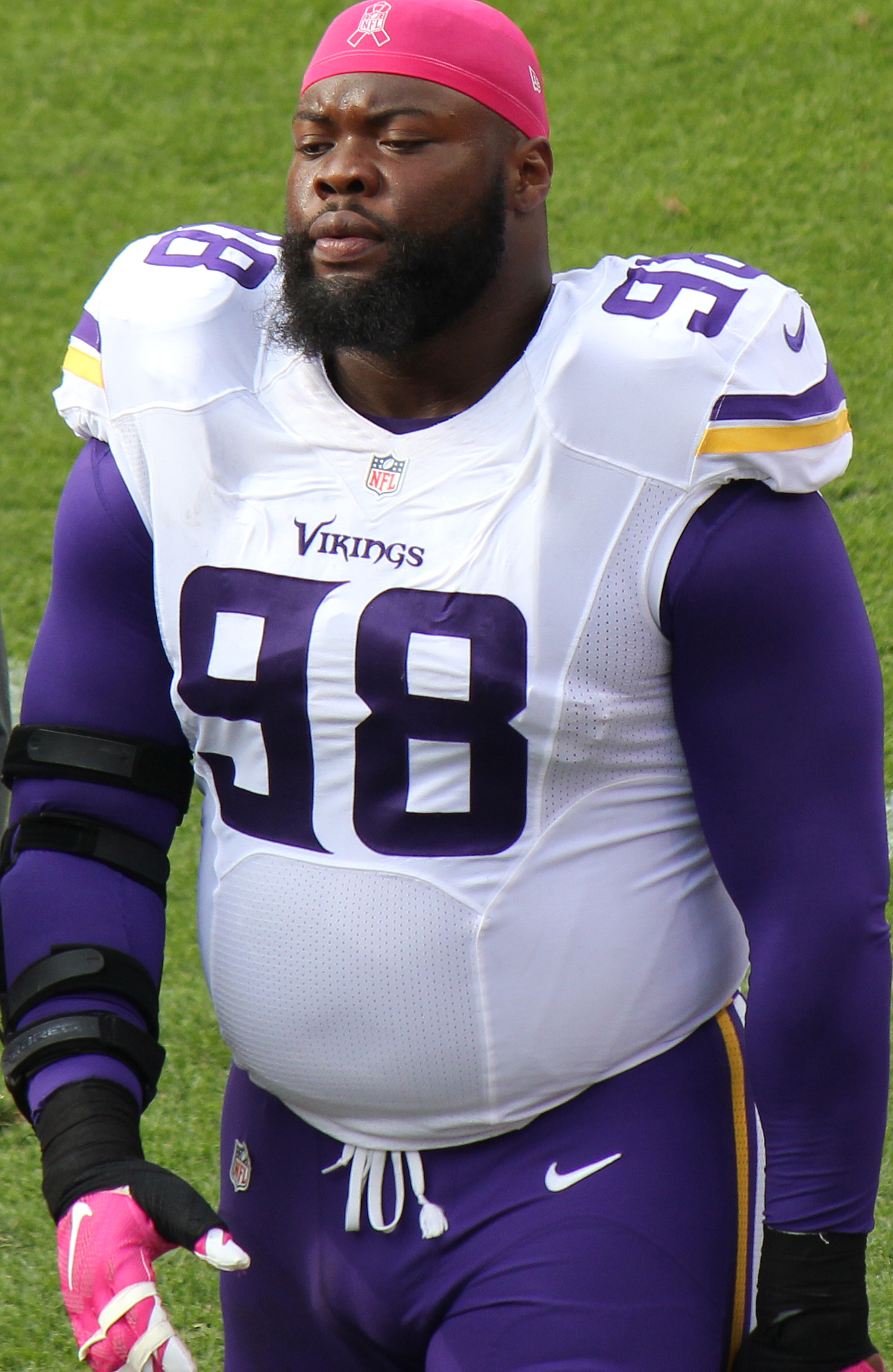 Linval Joseph, a player on the National Football League.